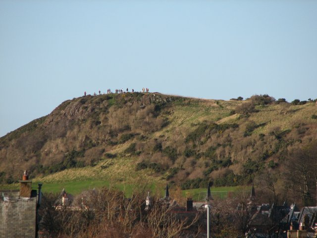 Demolition viewers A small crowd on Wester Craiglockhart Hill gathers to watch the demolition of the tower blocks at Oxgangs (285479). They were in for a cold wait - the demolition was delayed by an hour, rumour had it due to someone entering one of the to-be-demolished tower blocks.